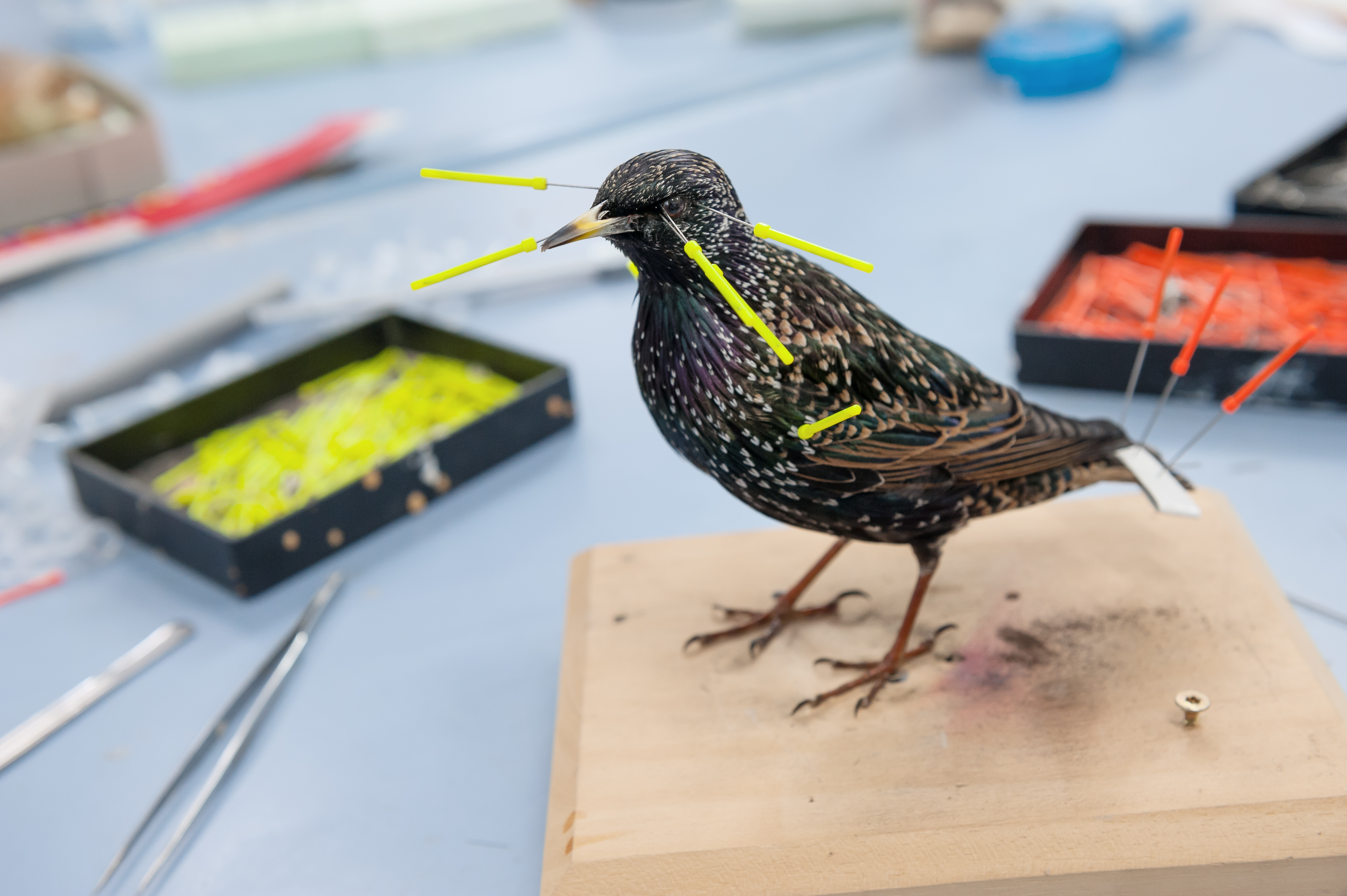 Taxidermy– Location: Museum Wiesbaden